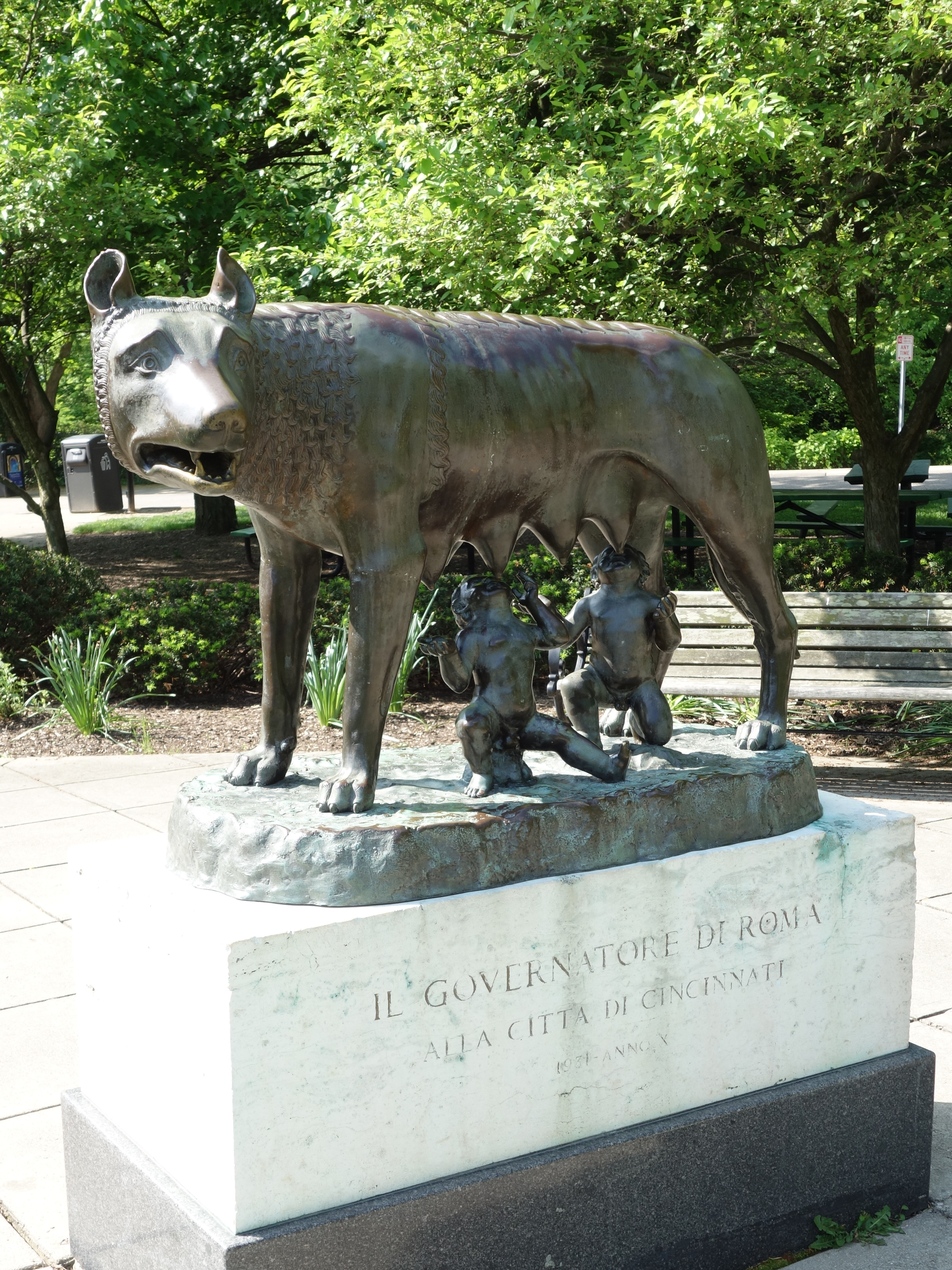 Capitoline Wolf statue, a replica of the ancient statue in Rome. Located in Eden Park, Cincinnati, Ohio, USA.